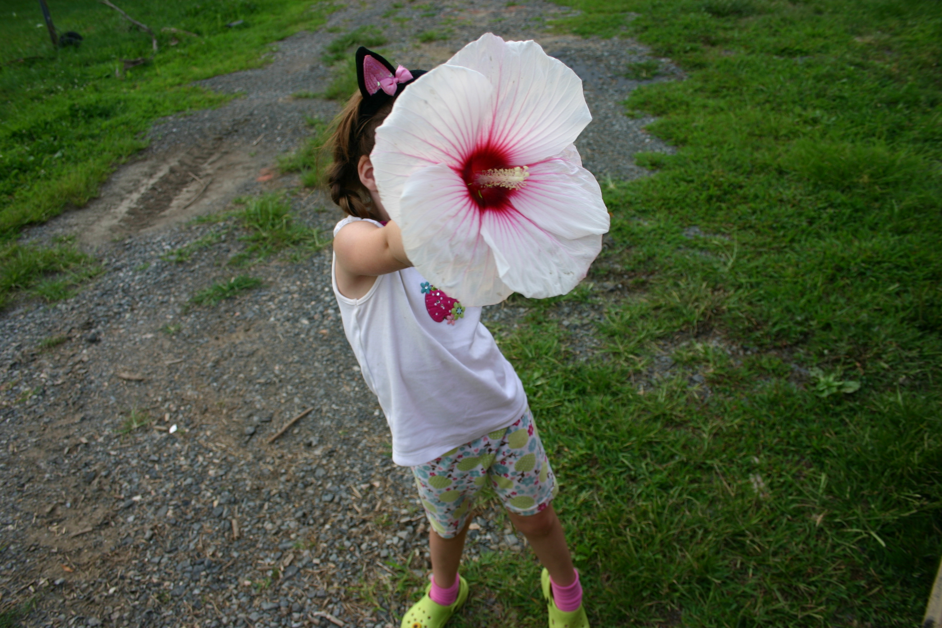 Hibiscus moscheutos